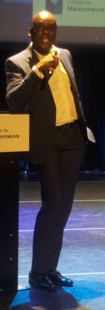 Bruny Surin photographed photographed in Montréal , Québec, Canada at the Maisonneuve College.